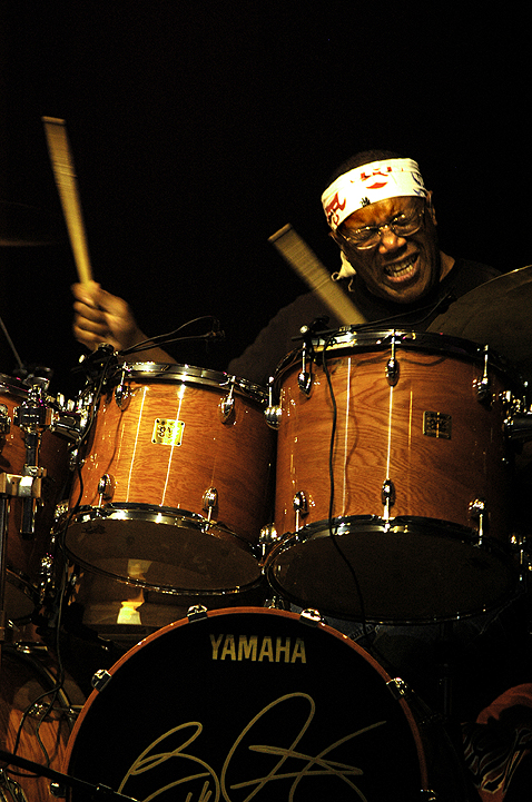 Drummer Billy Cobham at the WOMAD (World Music Festival), Reading 30/07/2005